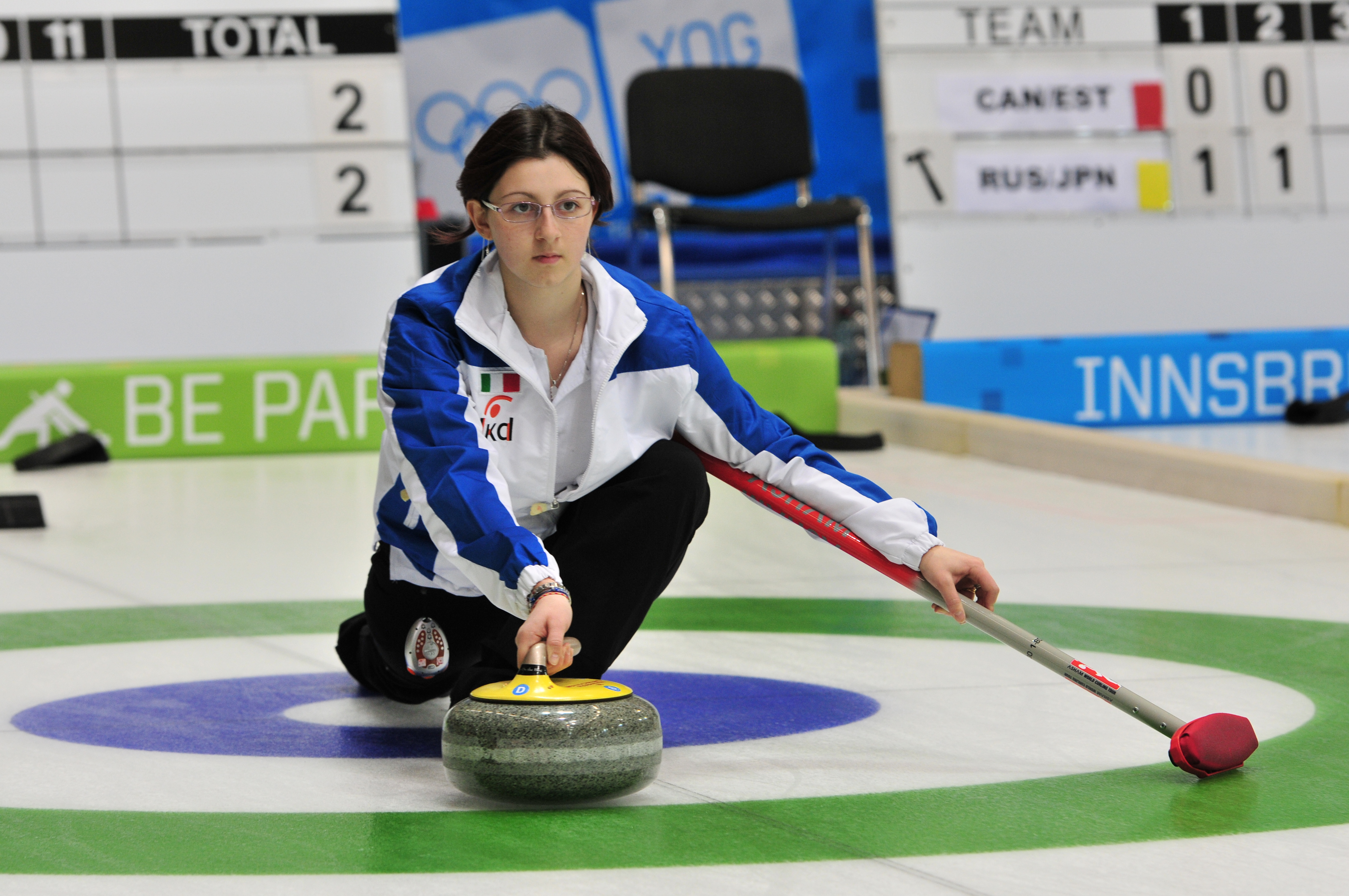 Denise Pimpini competing in curling at the 2012 Youth Winter Olympics, Innsbruck. Erste Olympische Jugend- Winterspiele 201213. bis 22. Jänner in Innsbruck Dieses Foto wurde durch die Unterstützung von Wikimedia Österreich und die Twoonix Software GmbH ermöglicht.